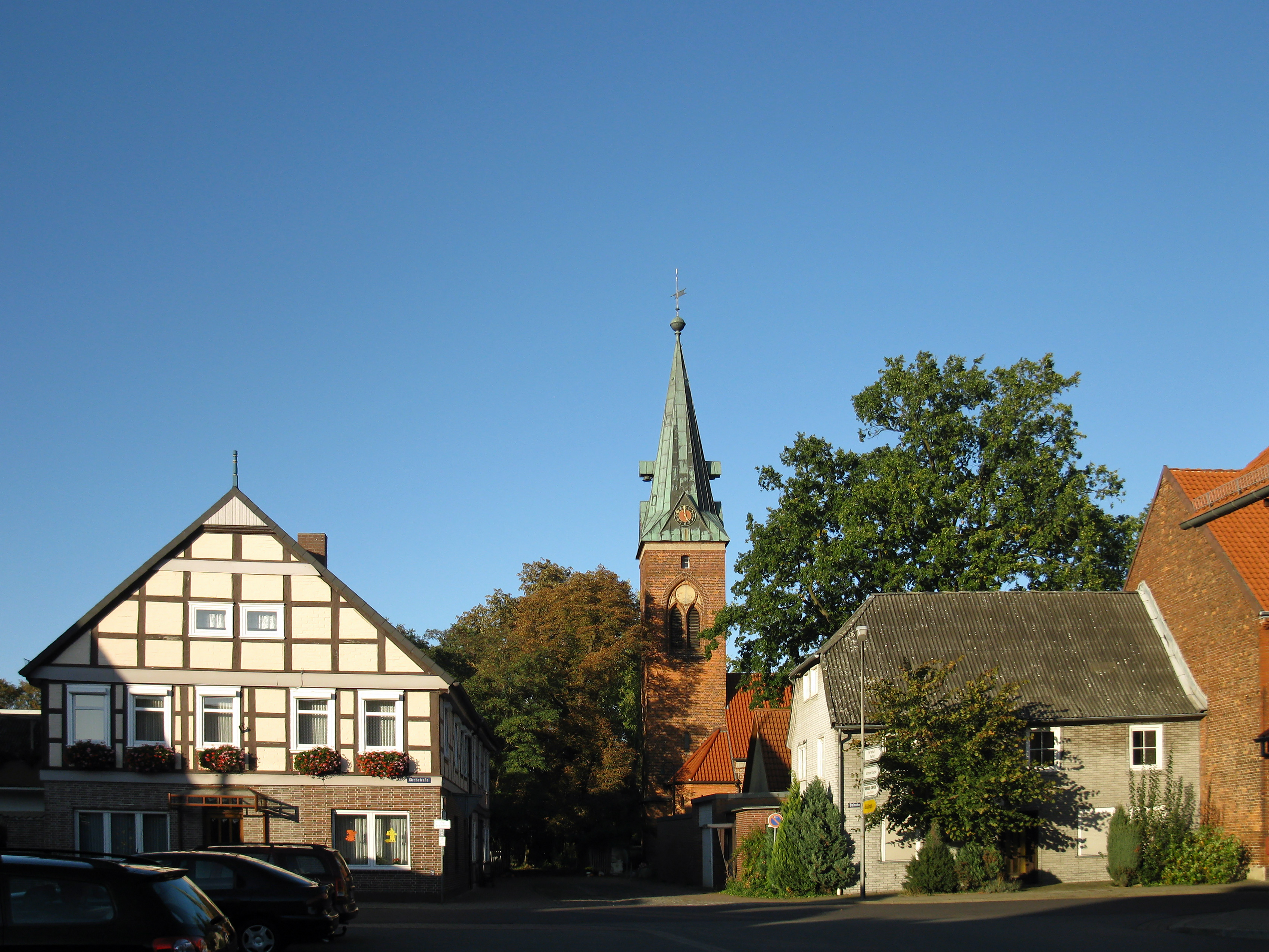 Market Place, Wustrow, Luechow, Germany